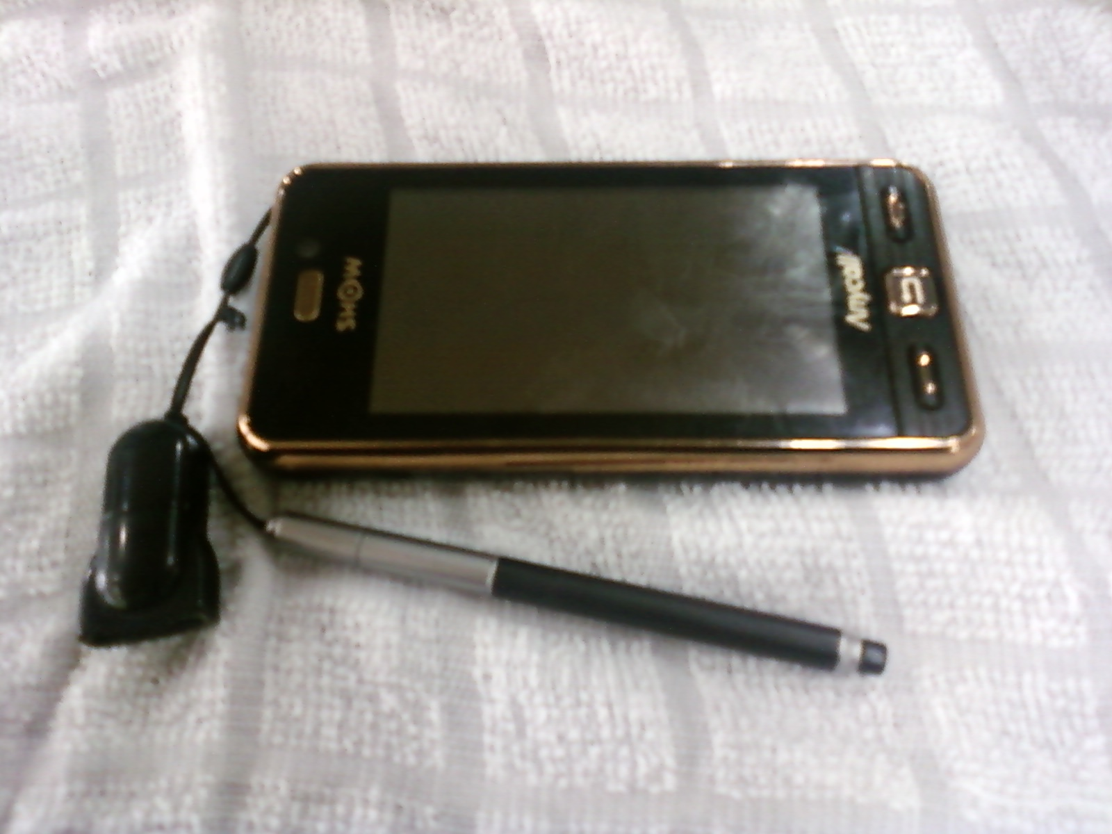 Samsung Anycall Yuna's Haptic